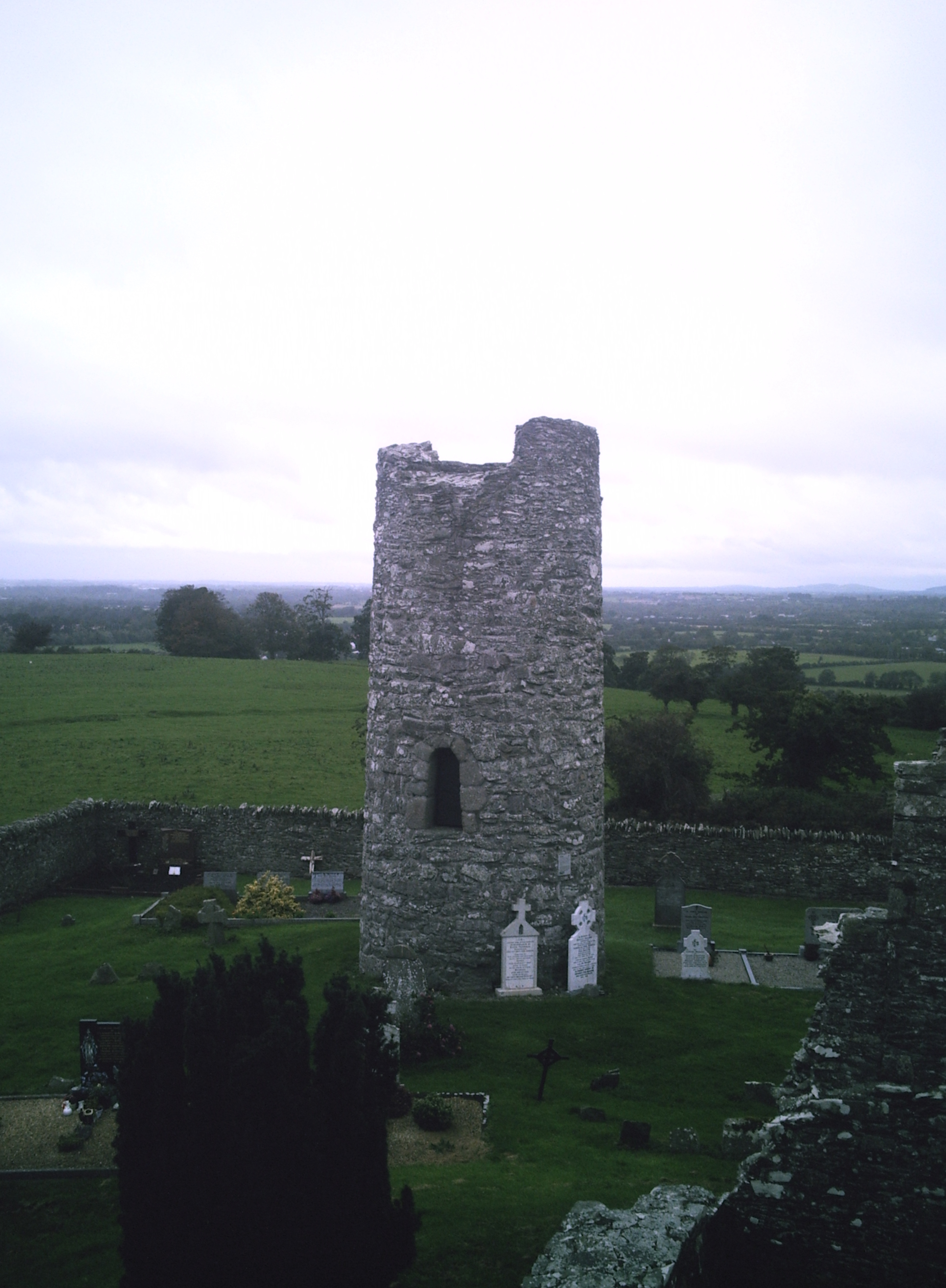 Photo of Oughterard Irish Round Tower, County Kildare, Ireland